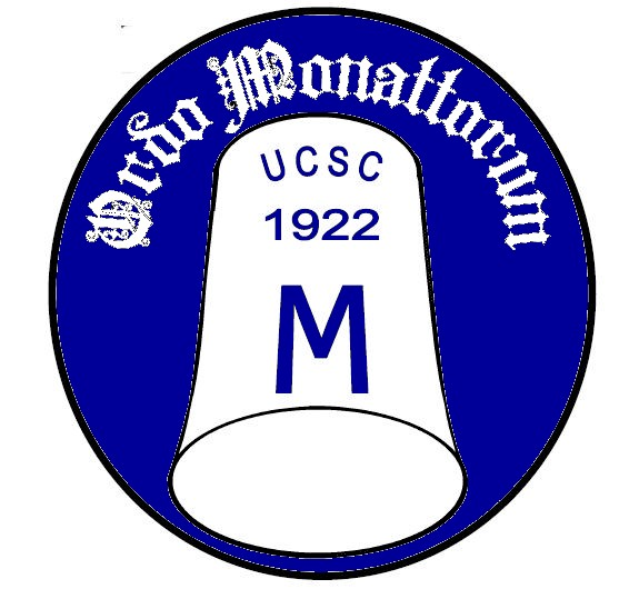 The Bell, symbol of the Ordo Monattorum, Università Cattolica's brotherhood